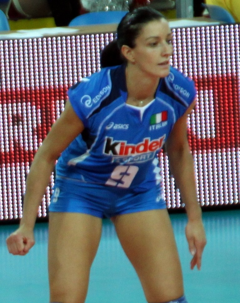 Italian volleyball player Manuela Secolo